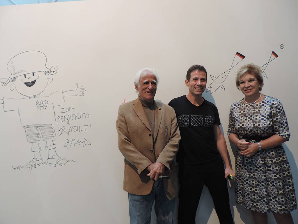 The illustrators Ziraldo and Roger Mello and the Education minister Marta Suplicy